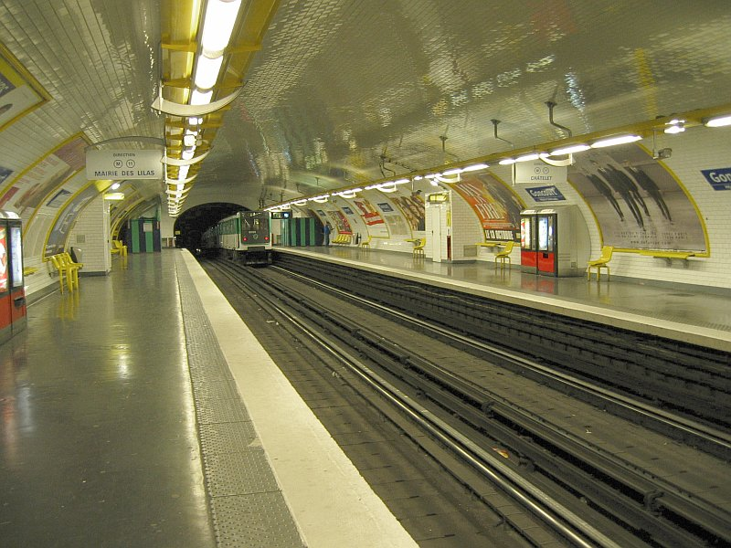 Paris Métro, station Goncourt (line 11)